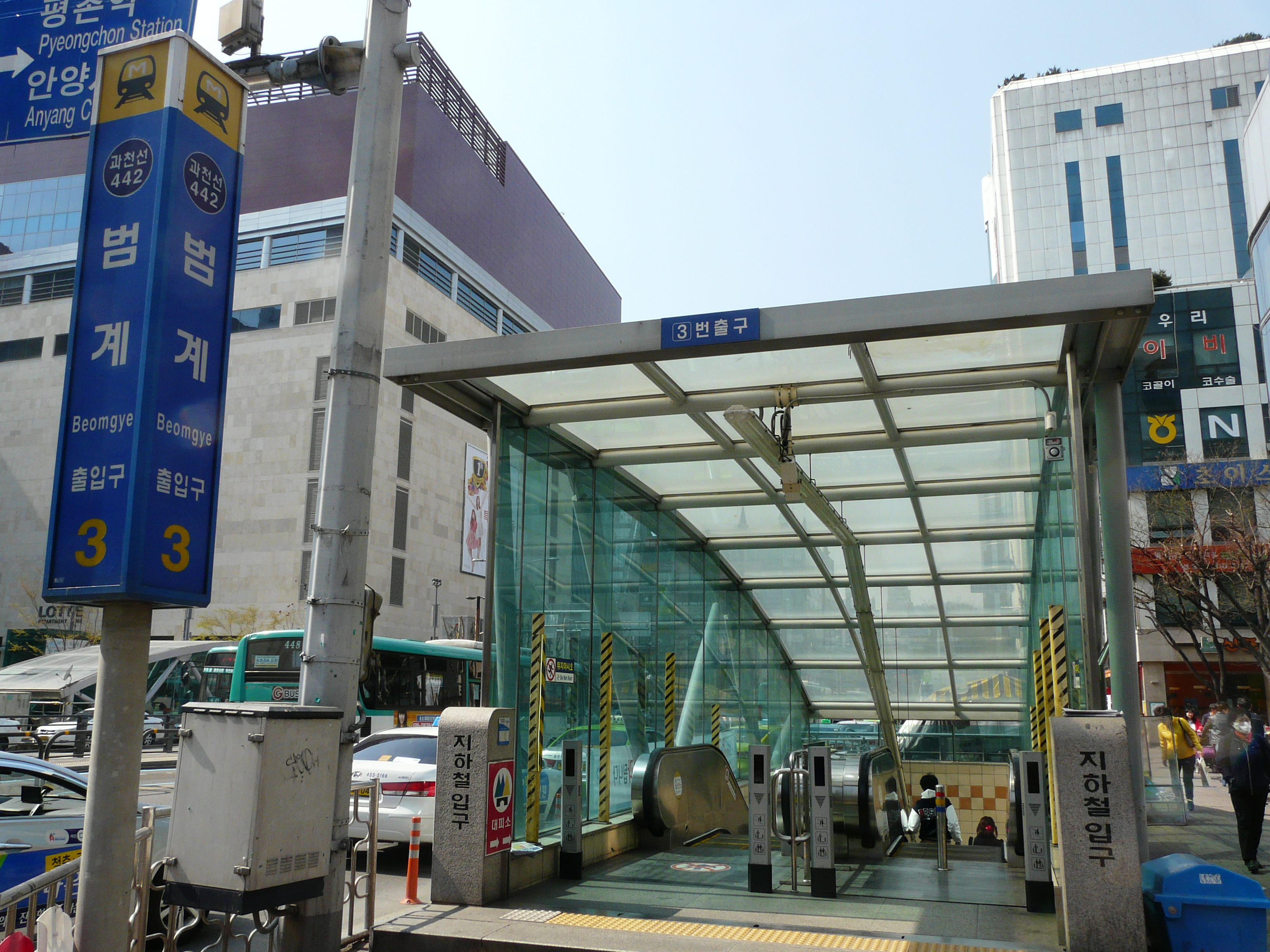 Photos from the city of Anyang, Korea.